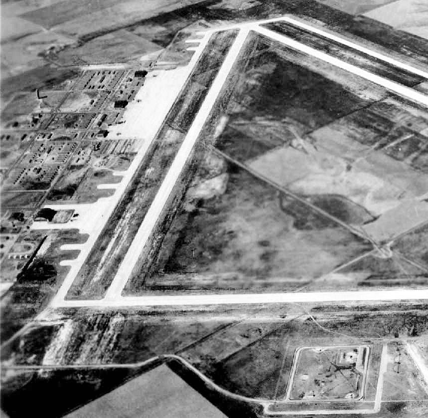 McCook Army Airfield in McCook, Nebraska, United States